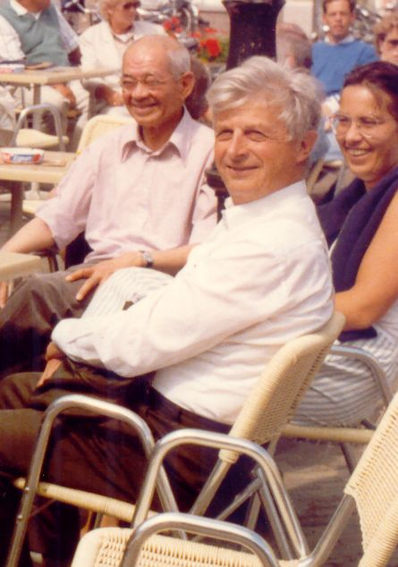 Pierre Malotaux 1987 in the front, and Dr.ir. Wil Heins and Karin Verkaik in the back.